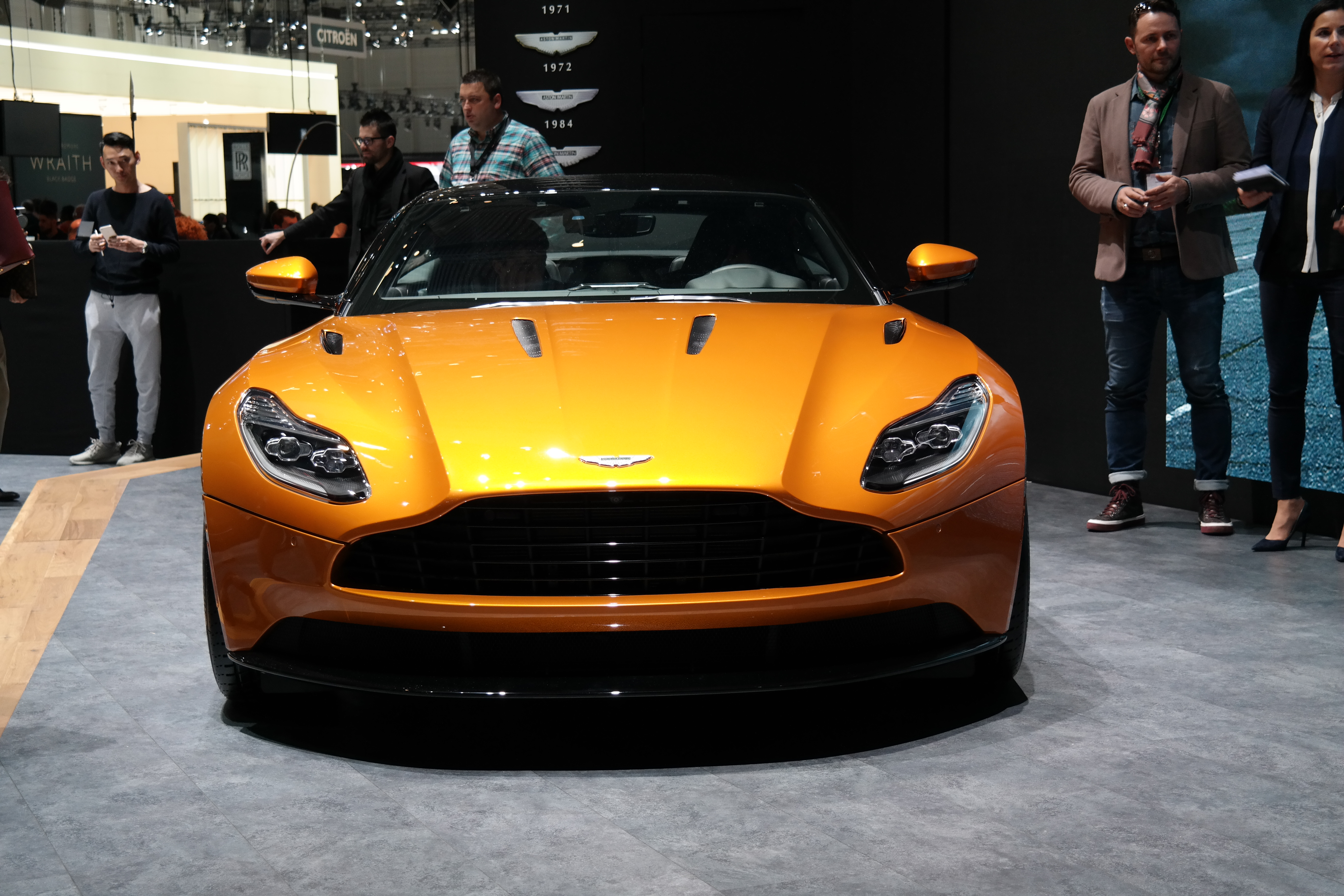 Geneva Motor Show 2016 (photo taken on the first press day)